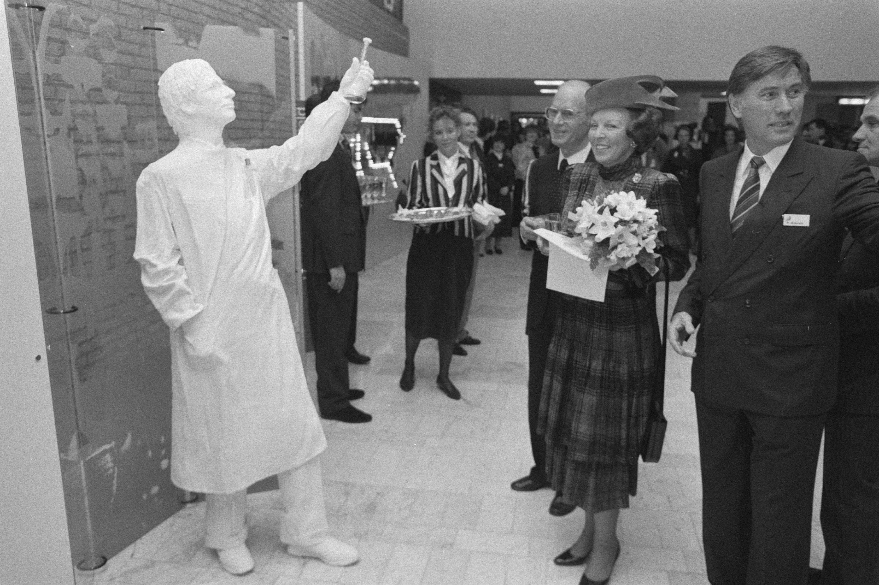 Queen Beatrix opens European Patent Office in Rijswijk (The Hague). Plaster sculpture depicts inventor. On the right probably EPO director Paul Braendli.